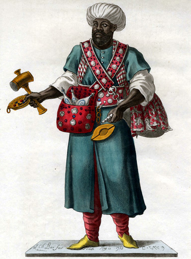 Portrait of a Water Carrier,or Sakka [ to water in Arabic ], in the holy city of Mecca,from the 18th.century.Water was precious commodity in the holy cities and the Hejaz in general due to scarcity of rain and lack of rivers.